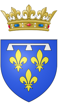 Coat of arms of the Philippe d'Orléans, Duke of Orléans (nephew and son in law of Louis XIV)